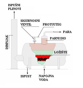 Design of Cornish boiler